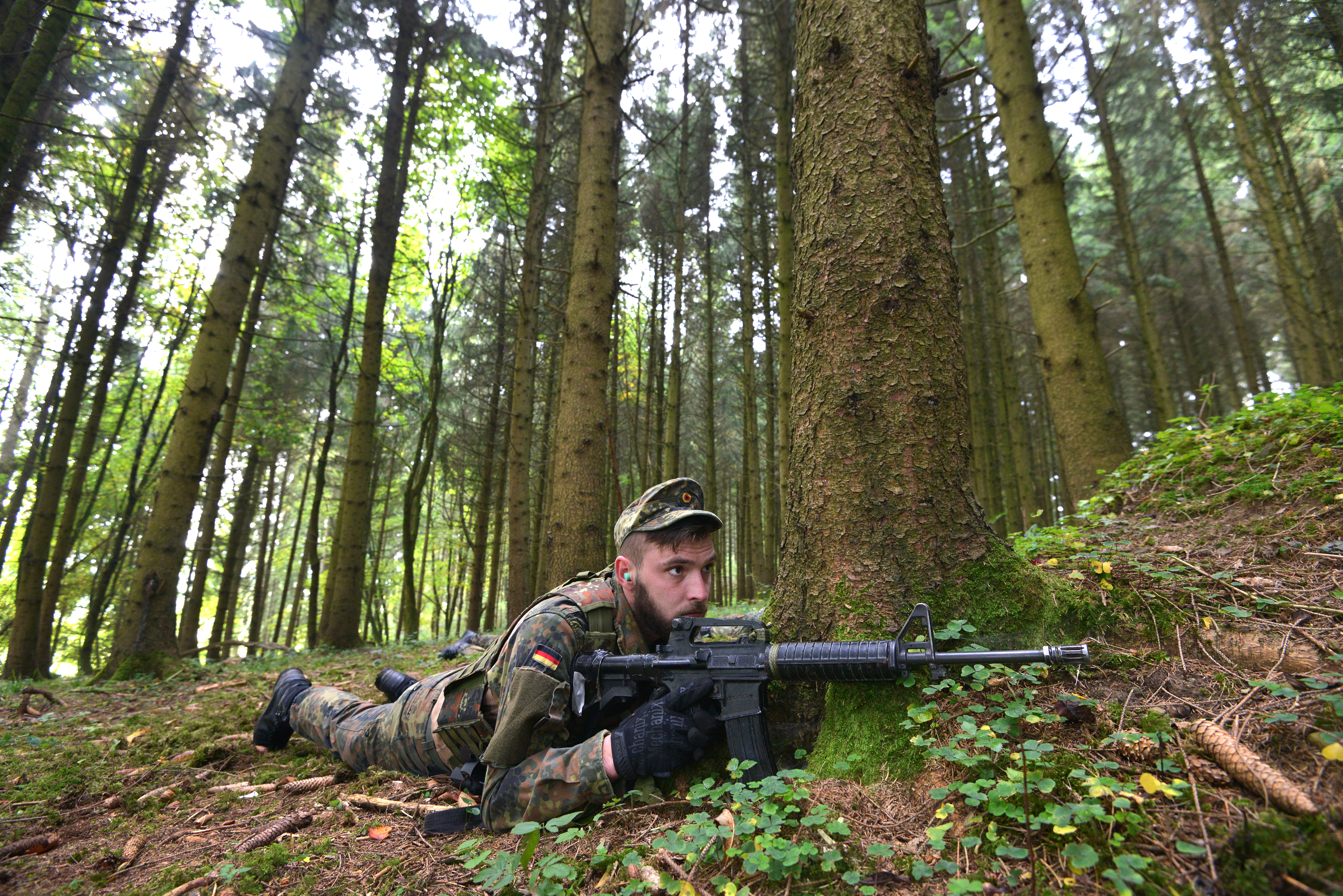 A German Soldier keeps a look out for enemy combatants during the Tactical Combat Casualty Care medical training exercise, hosted by the International Special Training Center, Pfullendorf, Germany, 27 September, 2017. Training exercises such as this are an invaluable method of enhancing NATO partnered nations to maintain a stong allied force against the global war on terrorism.